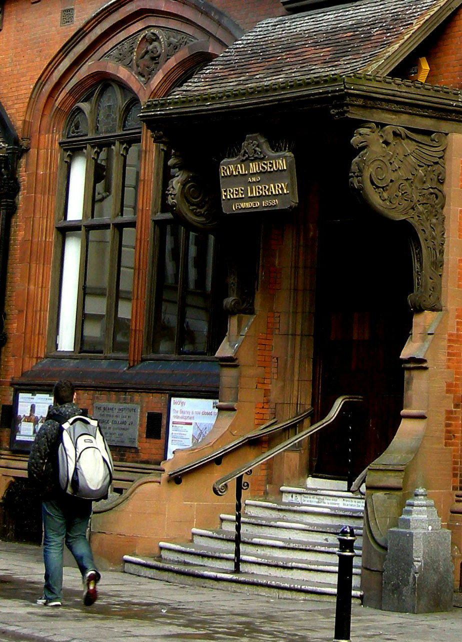 Royal Museum and Free Library in Canterbury, Kent, England. Known as the Beaney Institute.